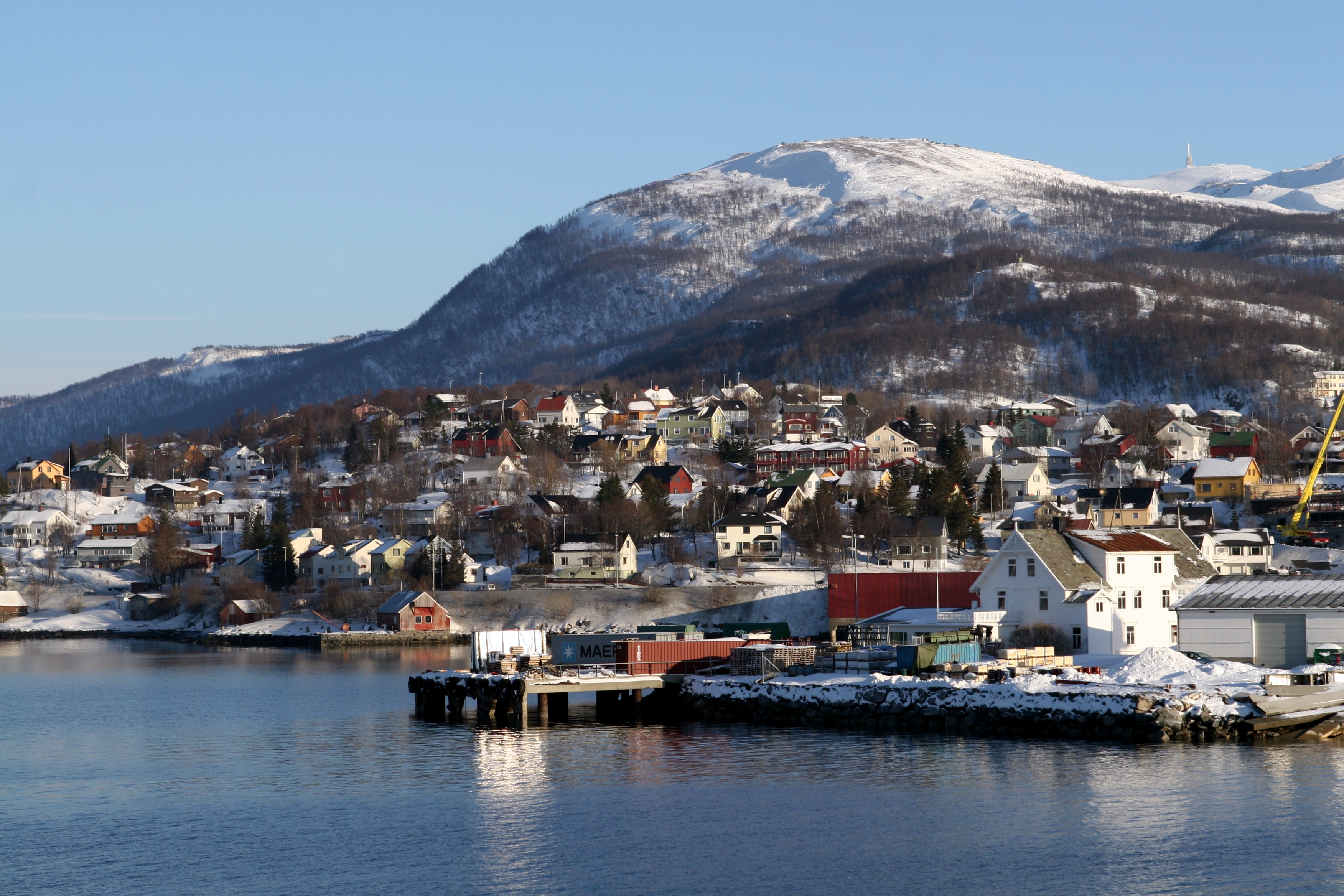 Finnsnes, administrative center of Lenvik, province of Troms, Norway. Winter 2006-2007